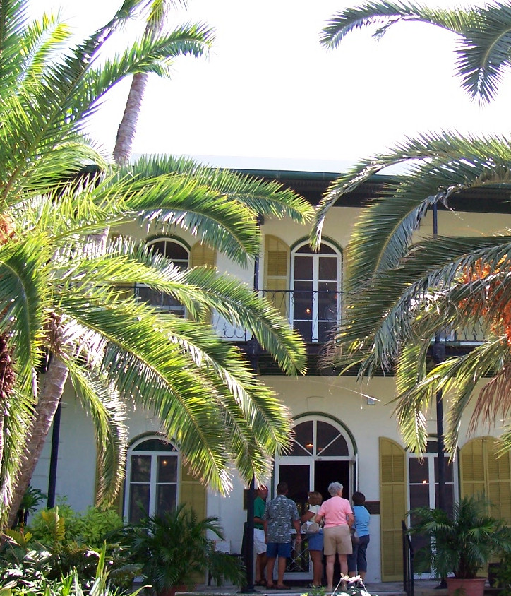 Picture of the front of the Ernest Hemingway House taken by me (Wknight94) during vacation on August 10, en:2006.